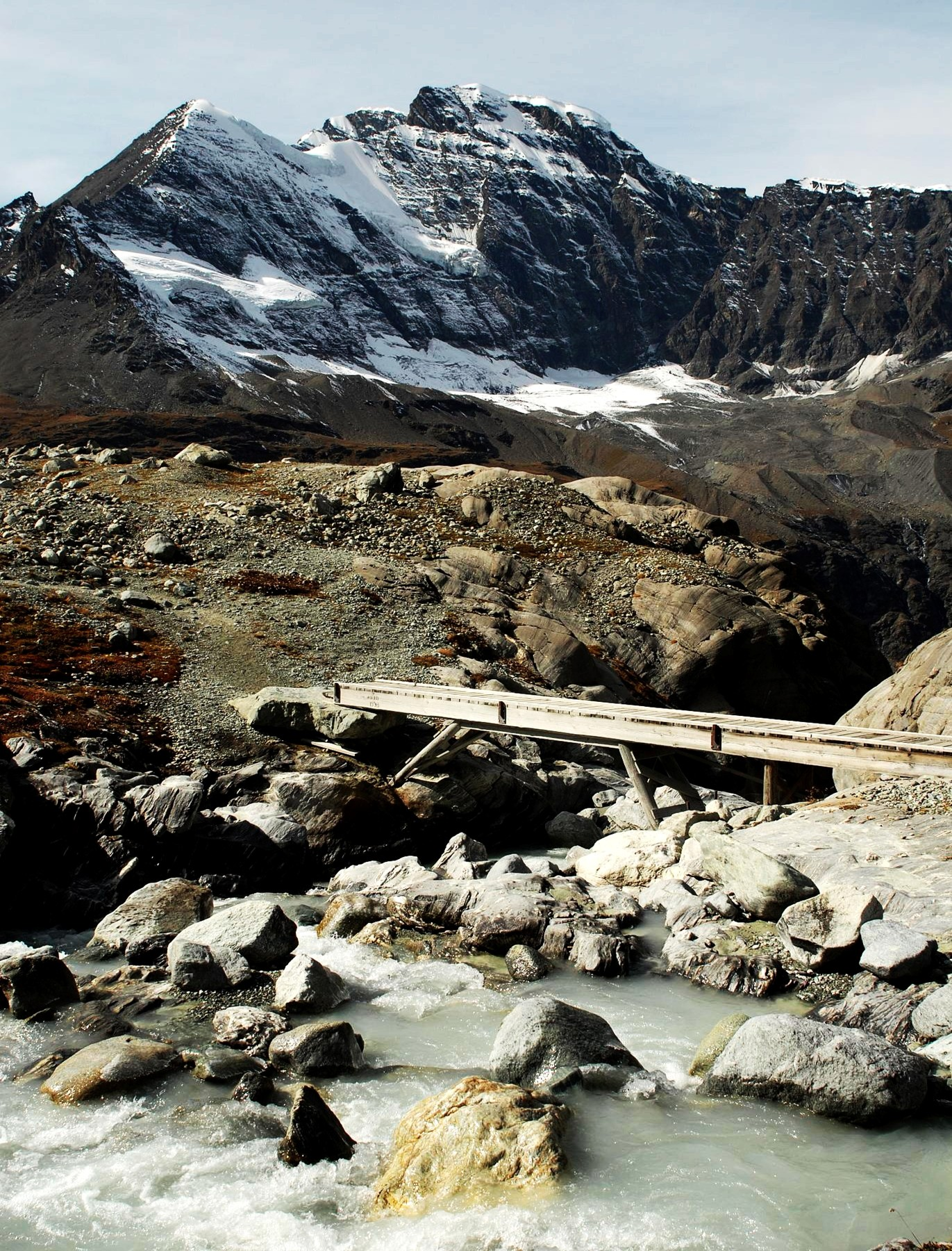 Grand Combin from Chanrion (east)